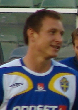 Taken at Ullevi for the match between Sweden and USA.